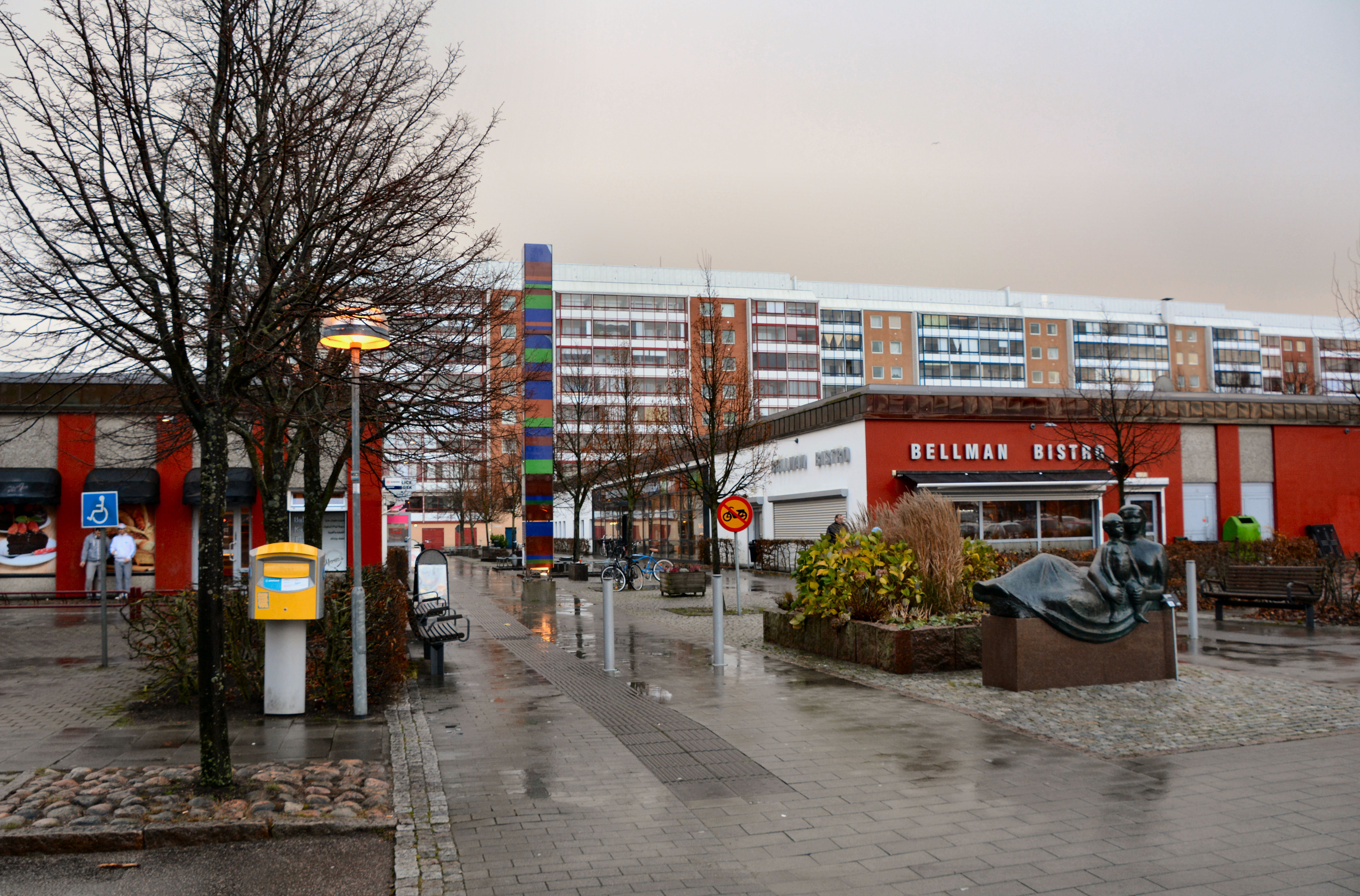 Andersberg centre, Halmstad, Sweden